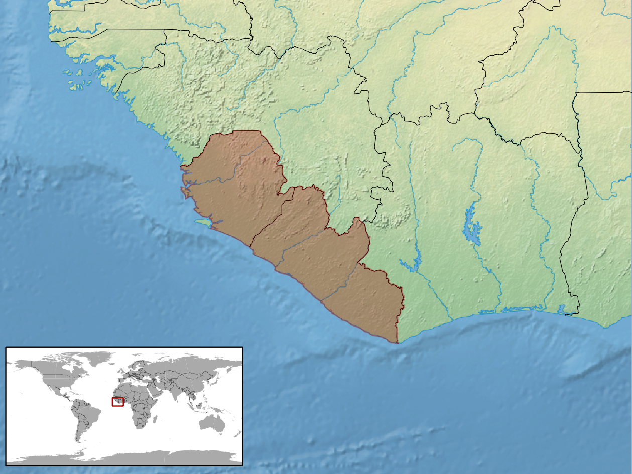 geographic distribution of Trachylepis bensonii